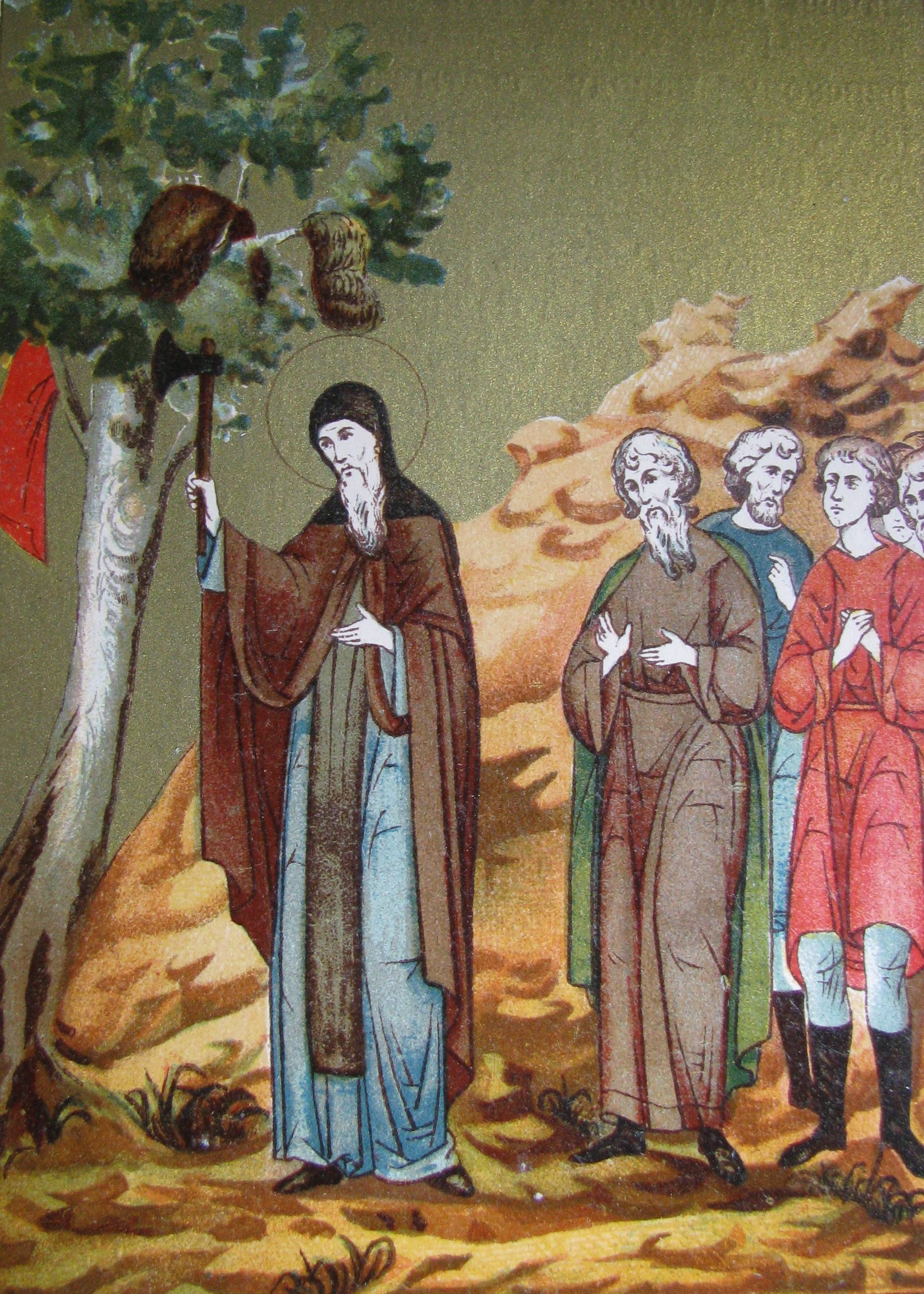 Stefan of Perm cut a tree